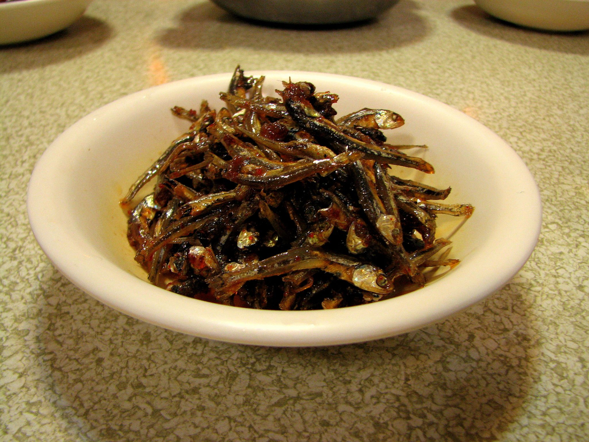 멸치볶음, panboiled dried anchovies in soy source and malt